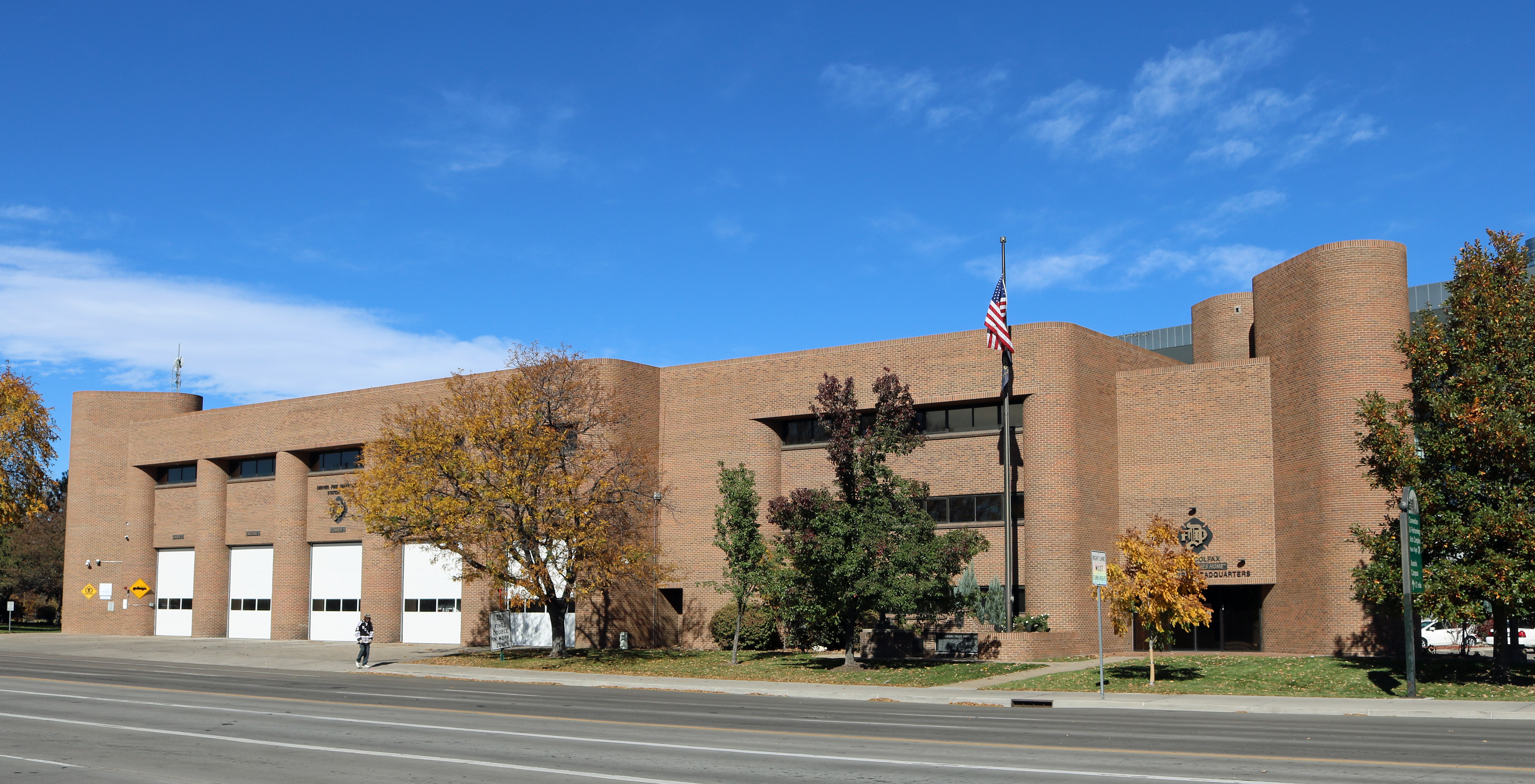 The Denver Fire Department headquarters (right side of the building) and Fire Station 1 (left side), located at 745 West Colfax Avenue in Denver, Colorado.